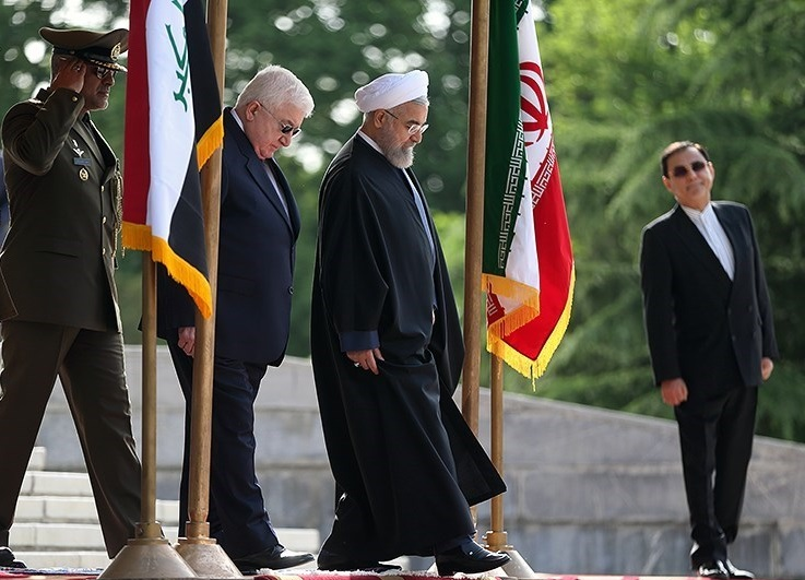 President Rouhani with Iraqi President Fuad Masum in Saadabad Palace